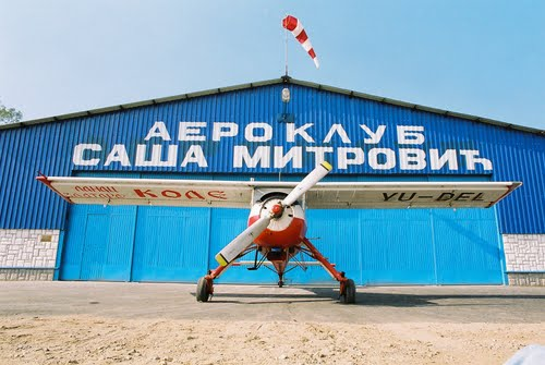 Аеро клуб